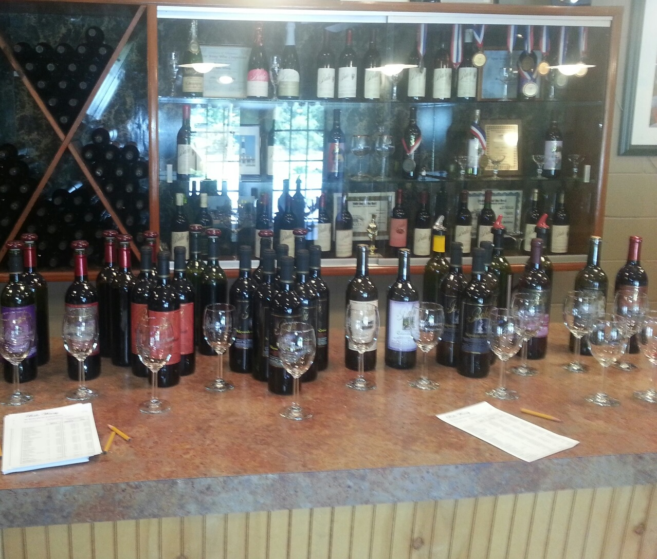 A picture of the tasting room of Balic Winery in Mays Landing, NJ. Balic Winery sells over 25 different types of wine.